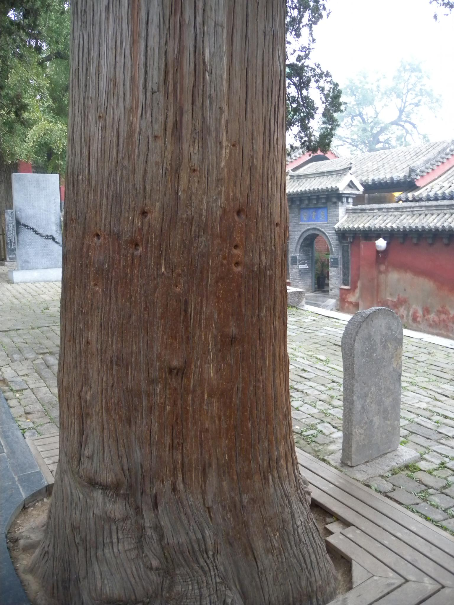 "See those small dents in that tree? Those are from Shaolin monks training to make their fingers stronger. Yes, really. Look up shaolin on youtube." Any use should credit Ryan McFarland with a link to